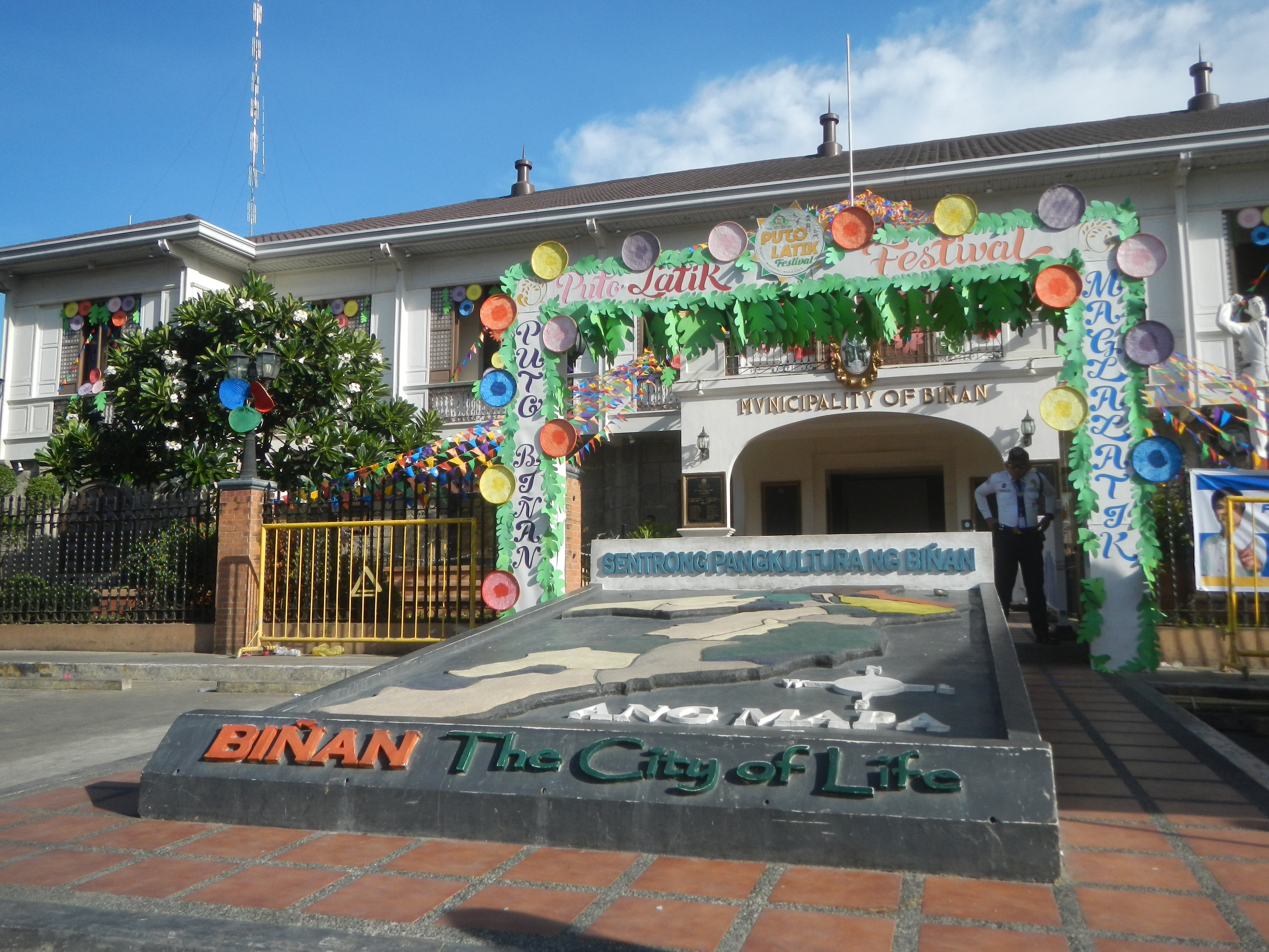 Jose Rizal monument - Poblacion, Biñan City Biñan Old Town Hall Francisco Mercado Rizal monument - Biñan City; Trimex Colleges - Biñan City; Biñan River Old houses in Biñan City National Highway, Biñan City, Laguna; Barangays Poblacion 14°20'16"N 121°5'0"E San Jose 14°20'23"N 121°4'52"E San Antonio 14°19'58"N 121°5'23"E Casile 14°20'41"N 121°5'20"E Malaban 14°20'44"N 121°5'32"E Biñan City of Biñan, Laguna; Legislative district of Biñan (Note: Judge Florentino Floro, the owner, to repeat, Donor Florentino Floro of all these photos hereby donate gratuitously, freely and unconditionally Judge Floro all these photos to and for Wikimedia Commons, exclusively, for public use of the public domain, and again without any condition whatsoever).